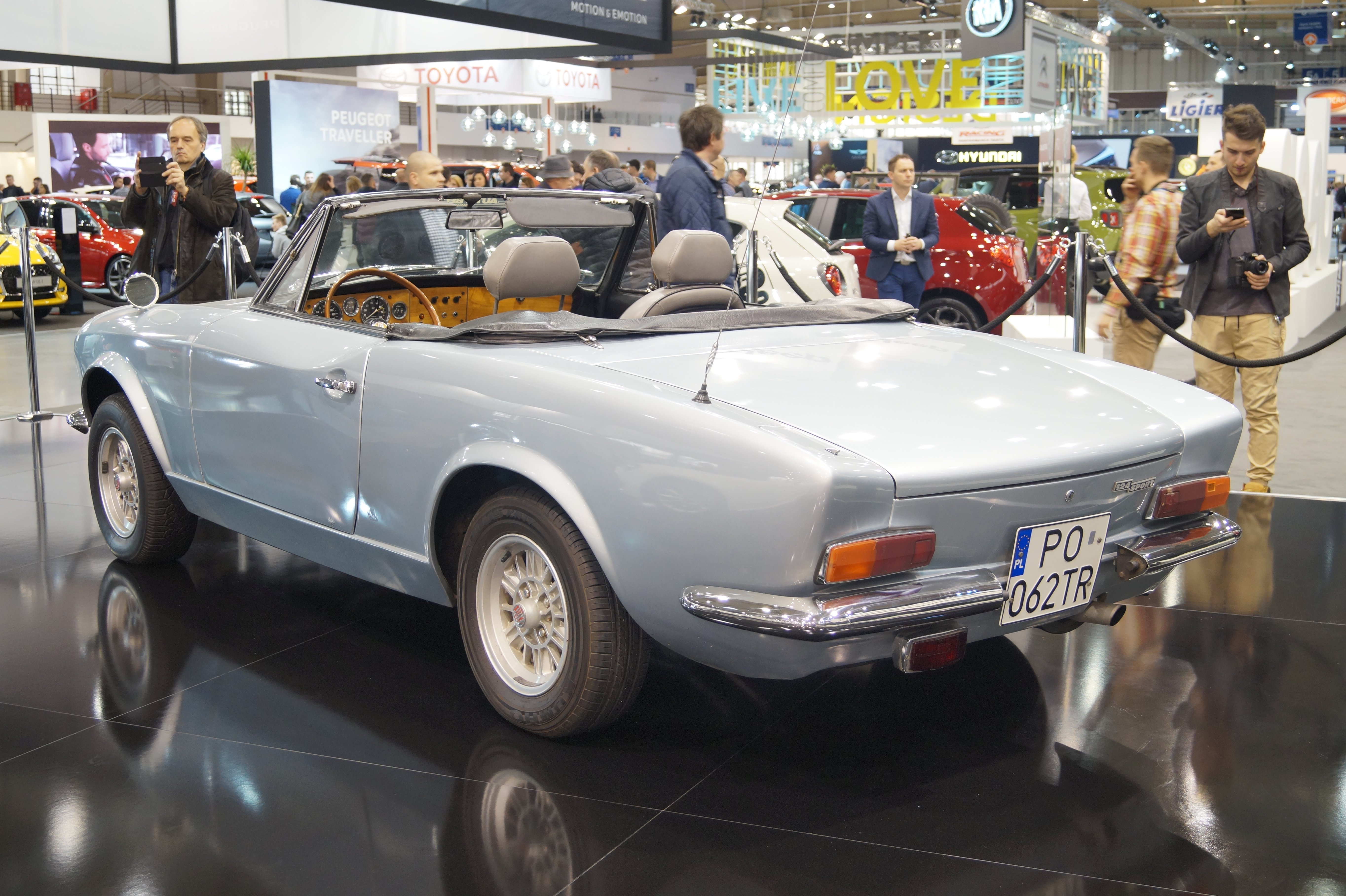 The making of this document was supported by Wikimedia Polska Association, within Wikigrant no. WG 2016-10. Tył Fiata 124 Spider na Motor Show Poznań 2016